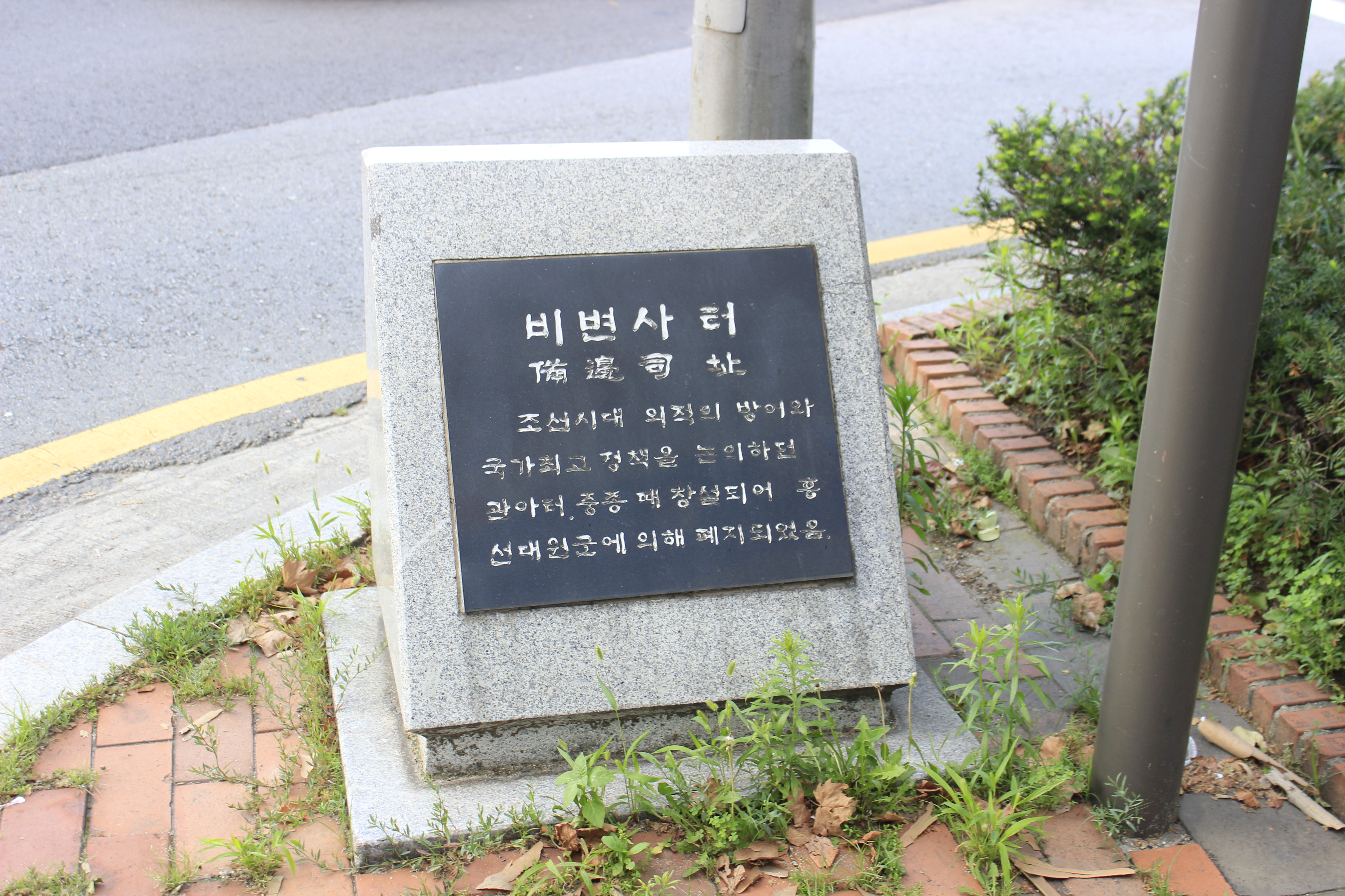 Bibyeonsa Stele